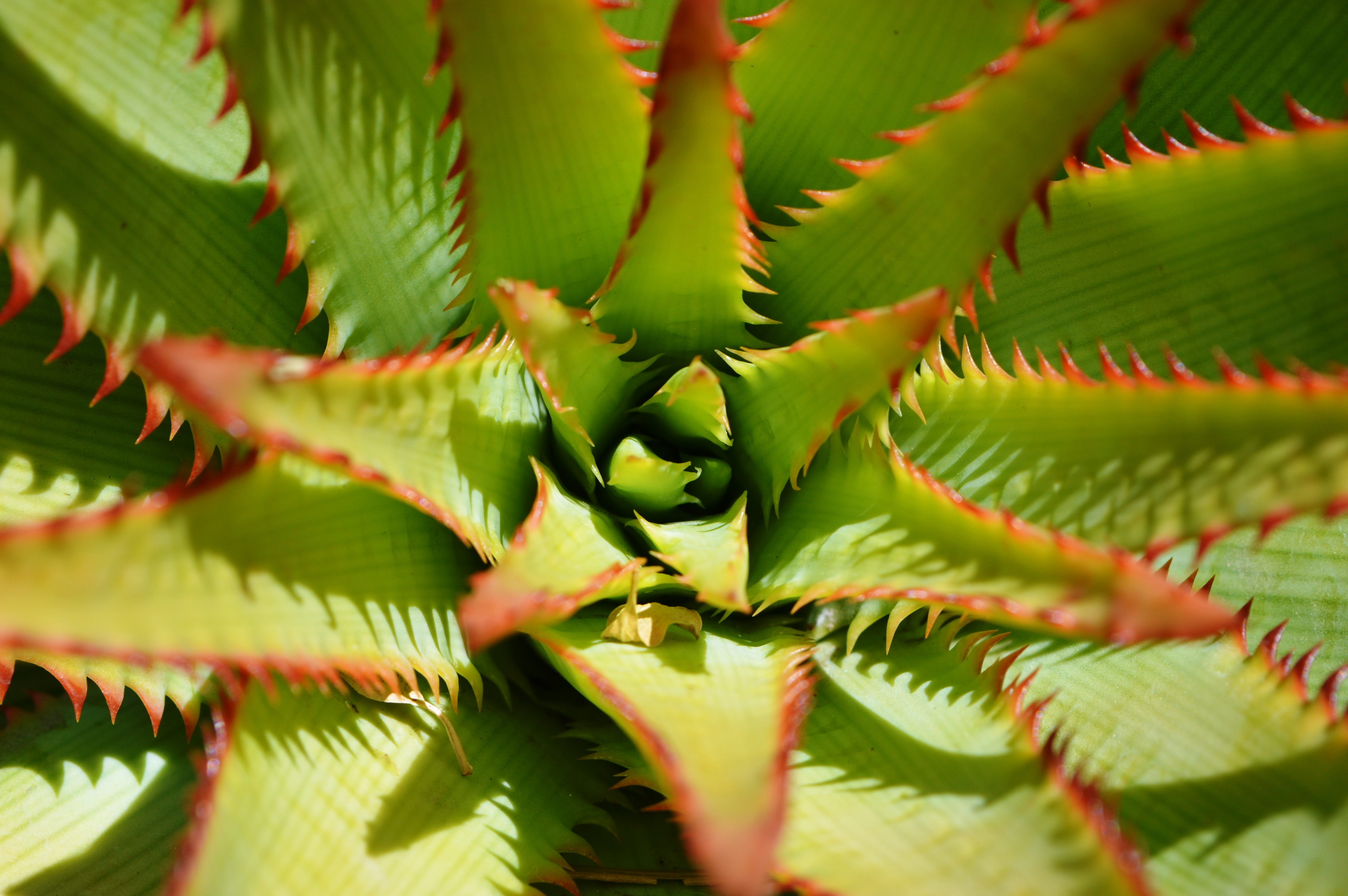 Red-spined striped aloe (Aloe lineata) --- indigenous to the Southern and Eastern Cape, South Africa --- at the University of California, Irvine Arboretum in Orange County, California.